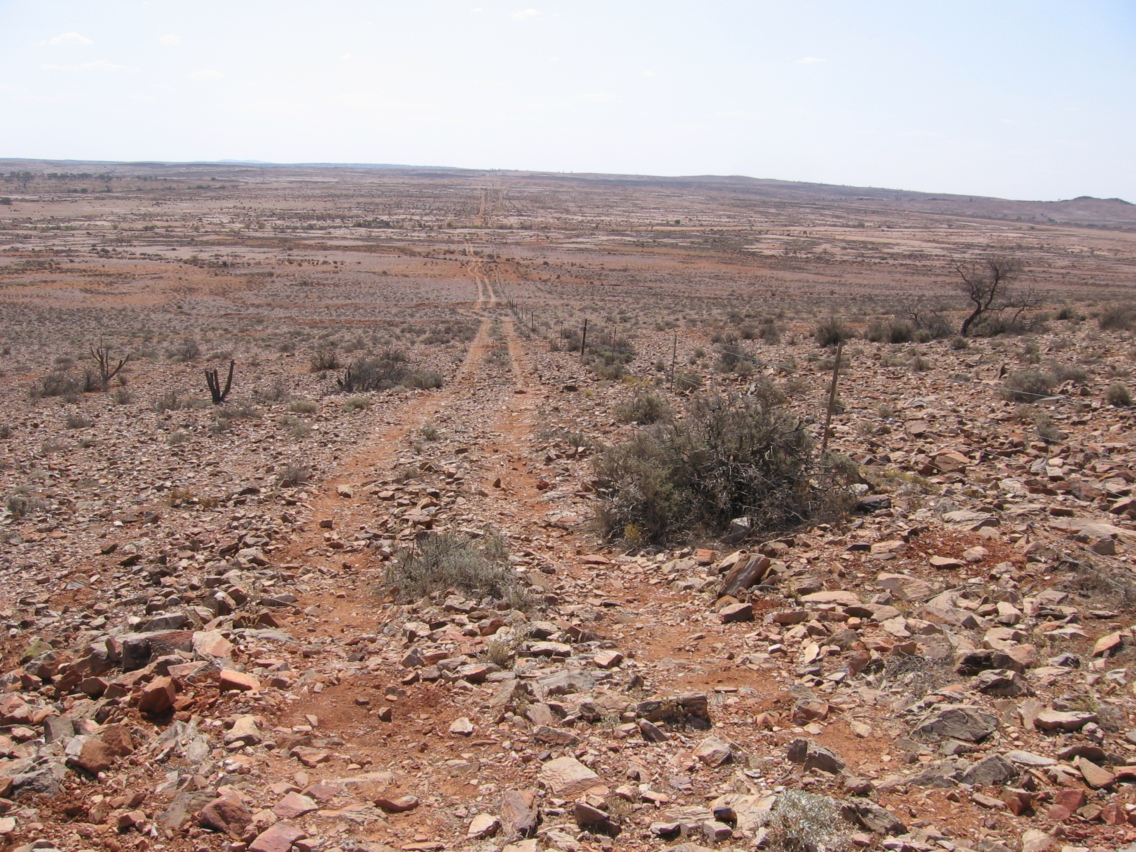 Track along side fence, Arid Zone, Broken Hill, Australia